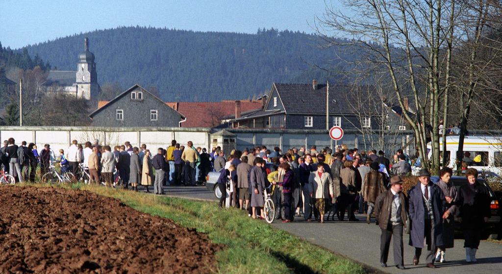 Opening of the inner German border at Heinersdorf, 4th December 1989